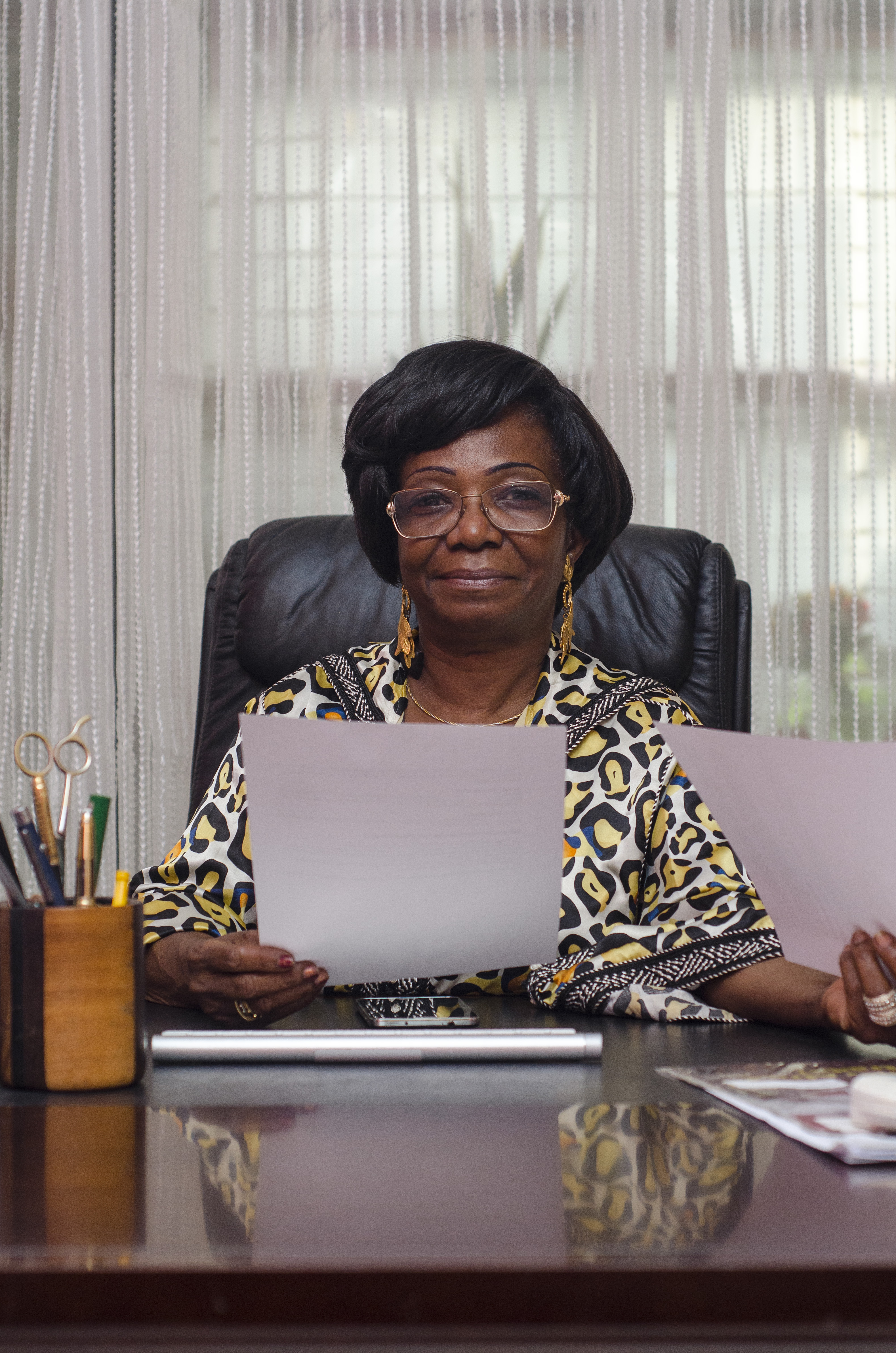 Madame Ngwevilo Rekangalt, one of the most renown leader of the civil society, a non partisan group, here at her office in Libreville